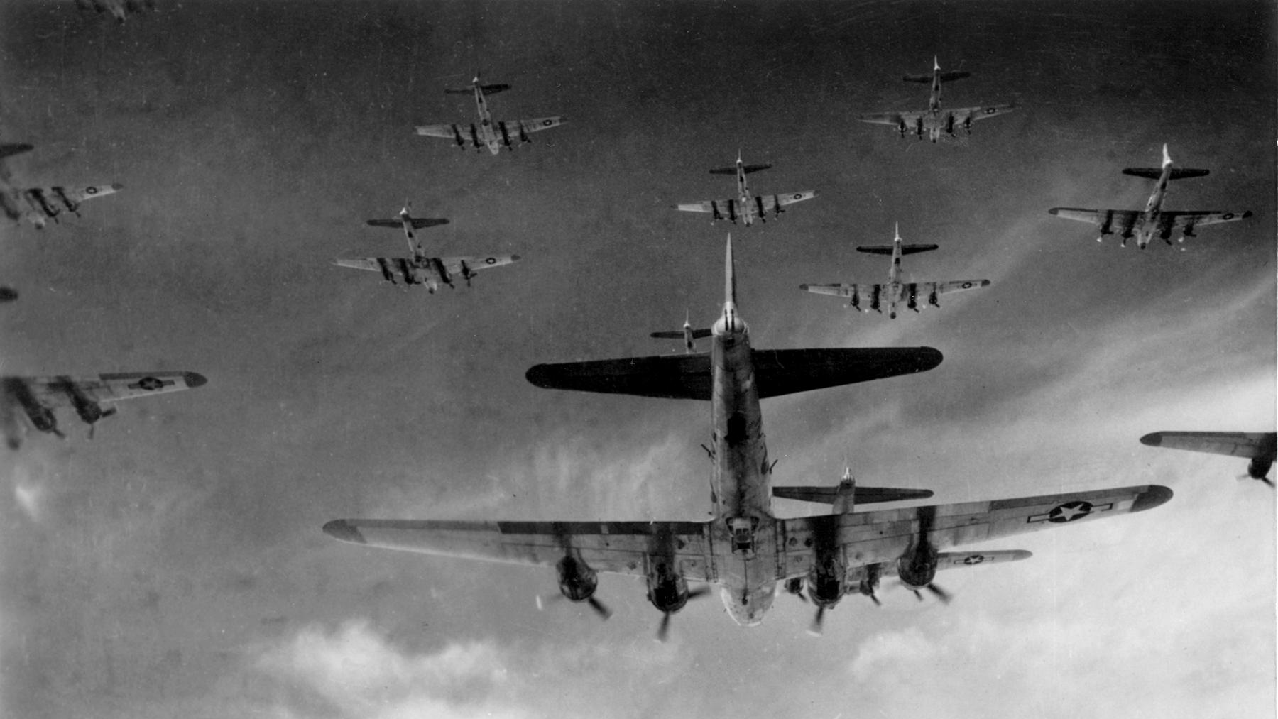 OVER GERMANY -- B-17 Flying Fortresses from the 398th Bombardment Group fly a bombing run to Neumunster, Germany, on April 13, 1945, less than one month before the German surrender on May 8.